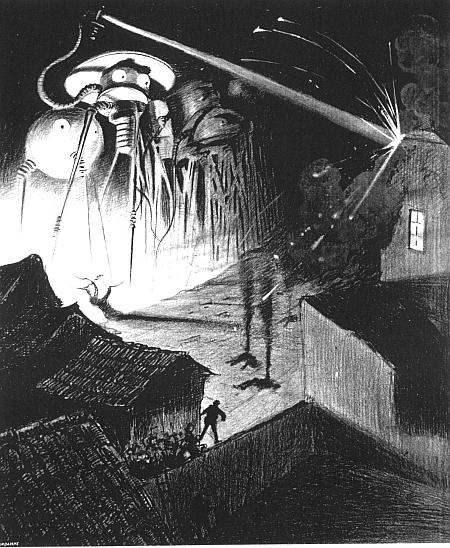 Artwork for the book "The War of the Worlds" of a 1906 Belgian edition by the Brazilian artist Henrique Alvim Corréa. The image shows the Martian fighting-machines destroying a town in England.